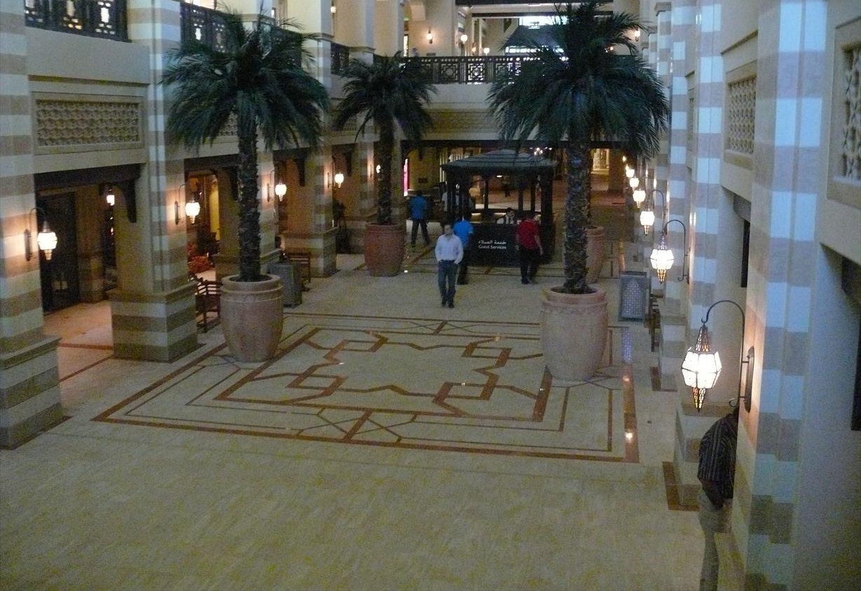 This is a photo showing the inside of Souk Al Bahar, a shopping mall located in the Old Town in Downtown Dubai in Dubai, United Arab Emirates, on 10 December 2007.